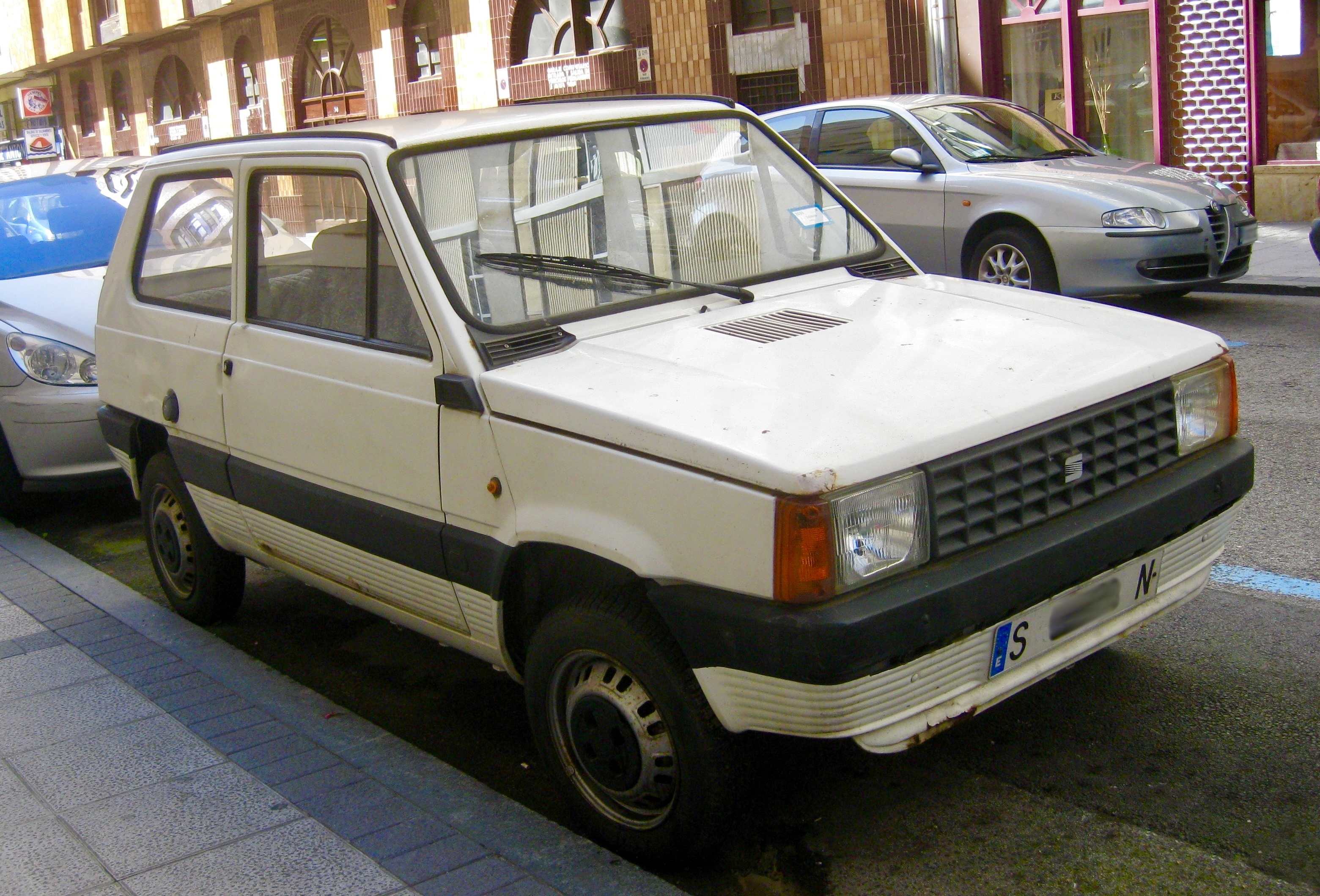 Such a humble car in every sense, it had a 1986 plate from Santander (Cantabria), was found there too.